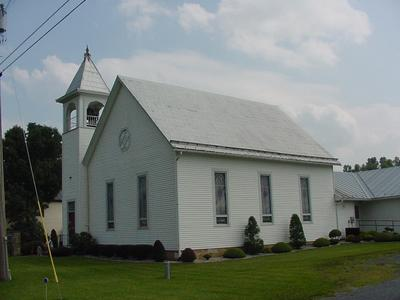 Ebenezer Lutheran Church viewed from Augusta-Ford Hill Road (CR 53) in Rio.